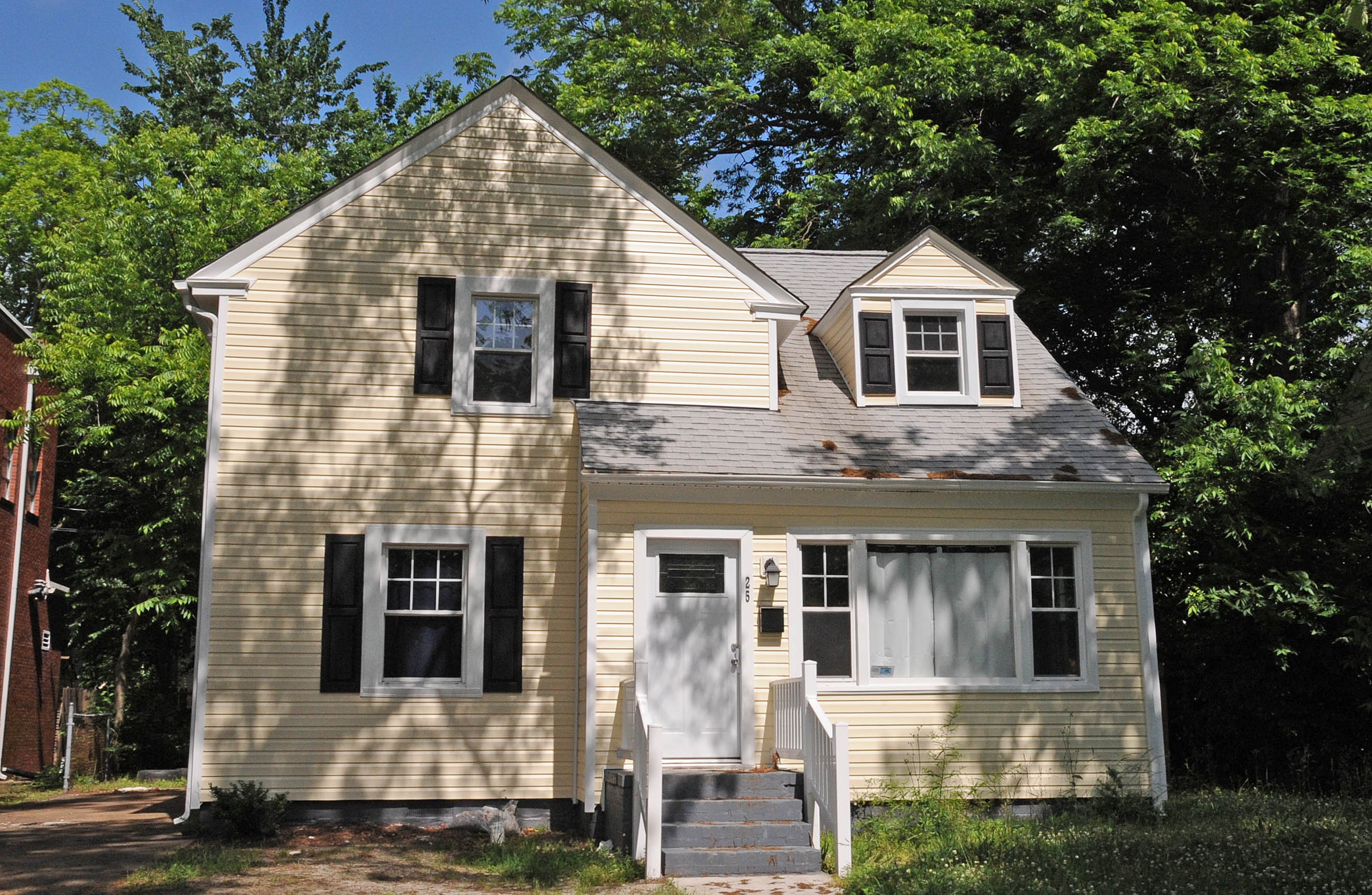 DEVELOPED DURING 1918 AS A PLANNED COMMUNITY OF COLONIAL REVIVAL AND BUNGALOW STYLES FOR WORKERS FROM THE NORFOLK NAVAL SHIPYARD. TYPICAL HOUSE AT 25 PROSPECT WAY